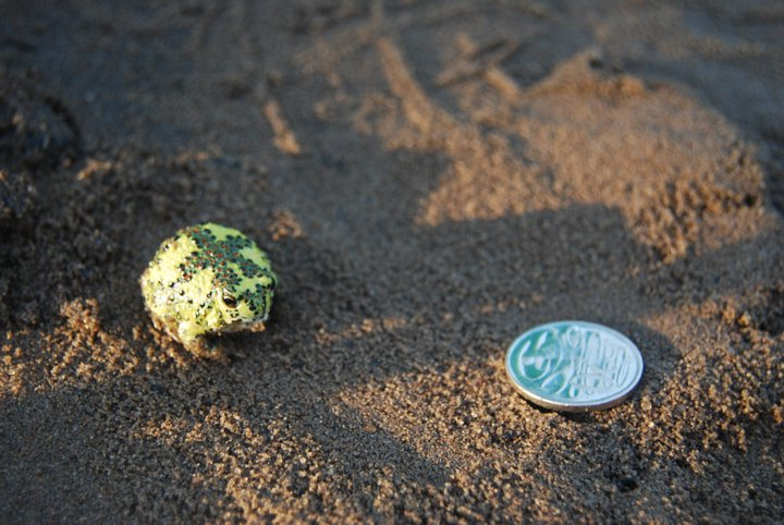 A small Holy Cross Frog. Australian 20c coin diameter = 28.52 mm.